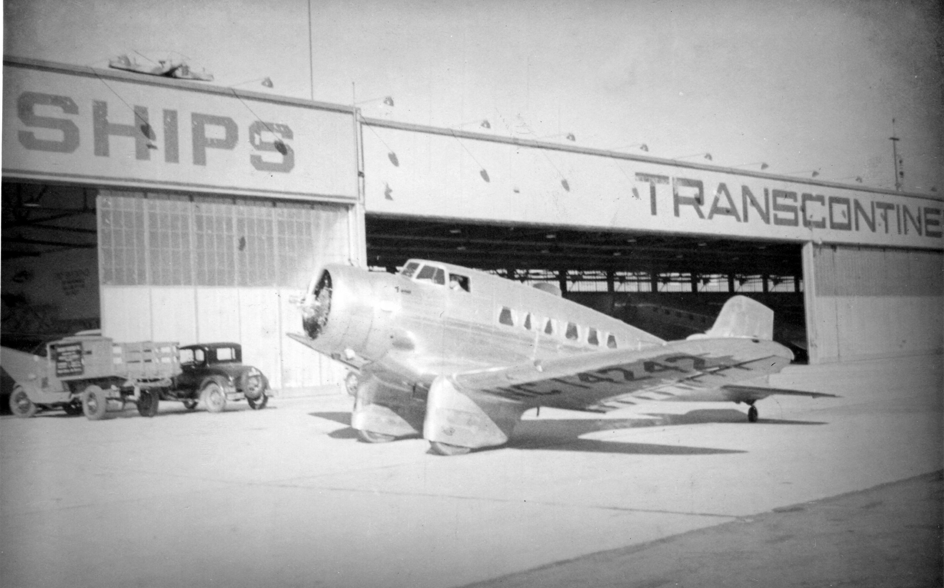 Northrop Delta 1D, NC14242